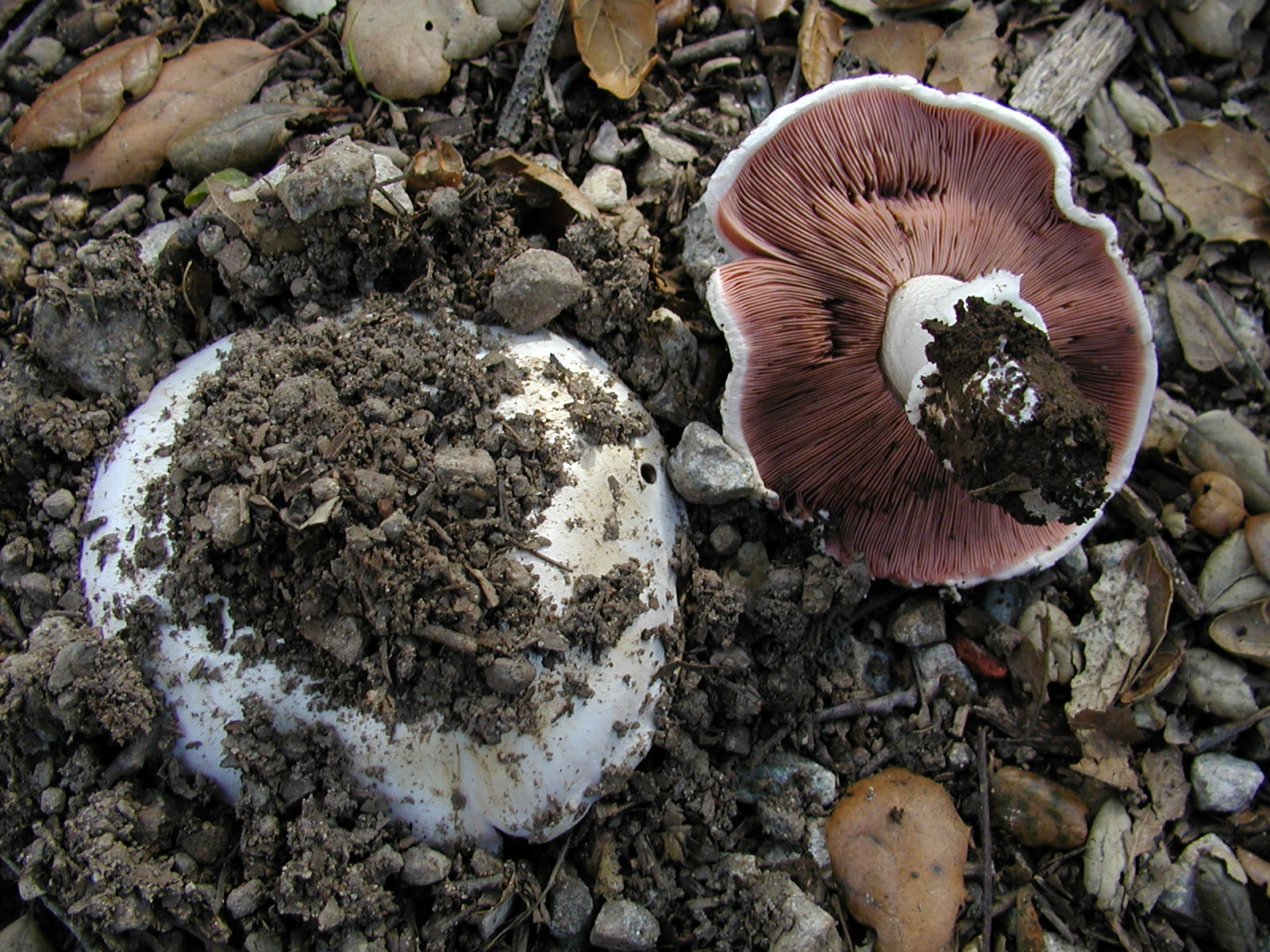 Agaricus bitorquis, found at the Chumash Interpretive Center, Thousand Oaks, California.